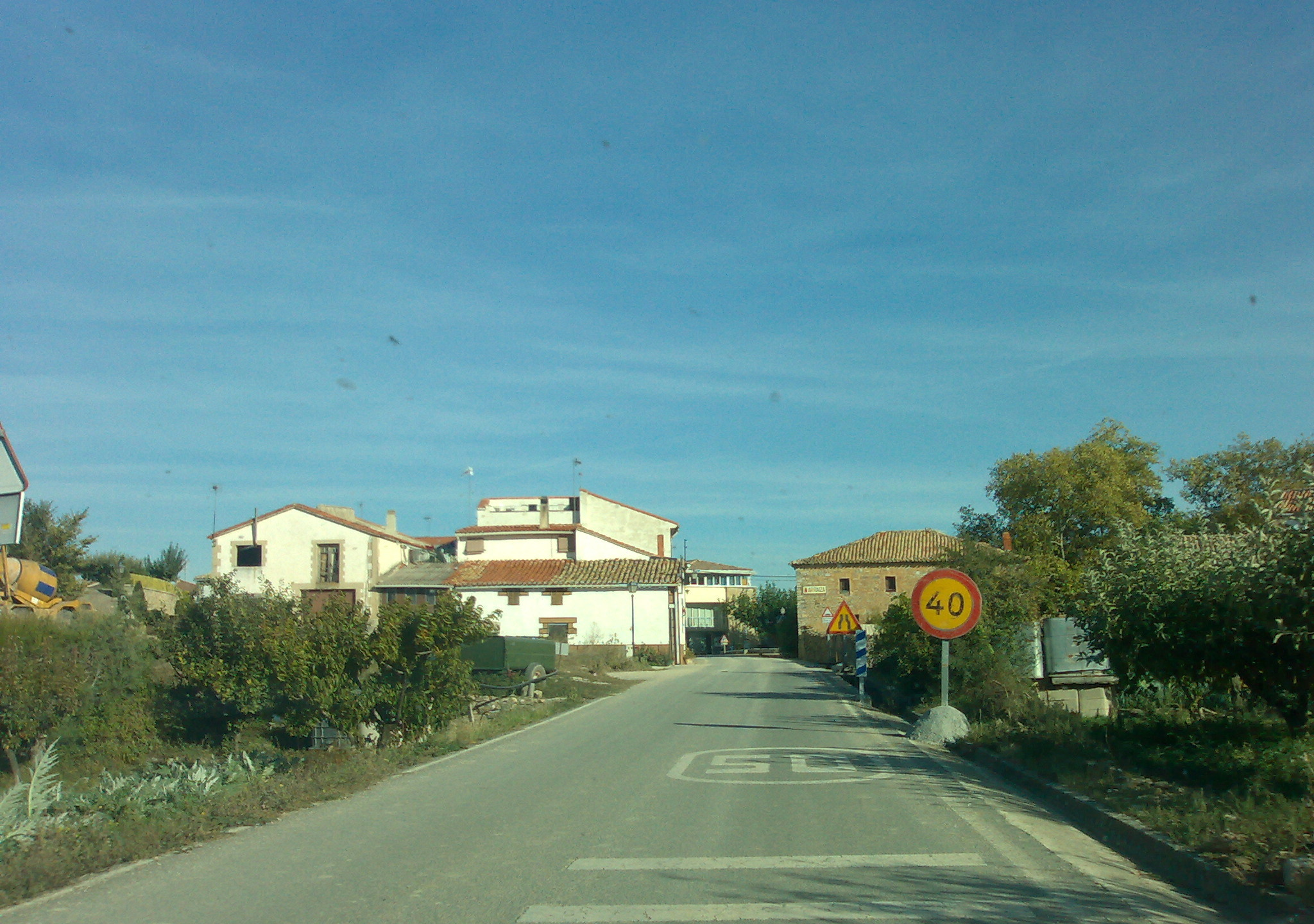 Zabaltza udalerriko Arraiza herria.